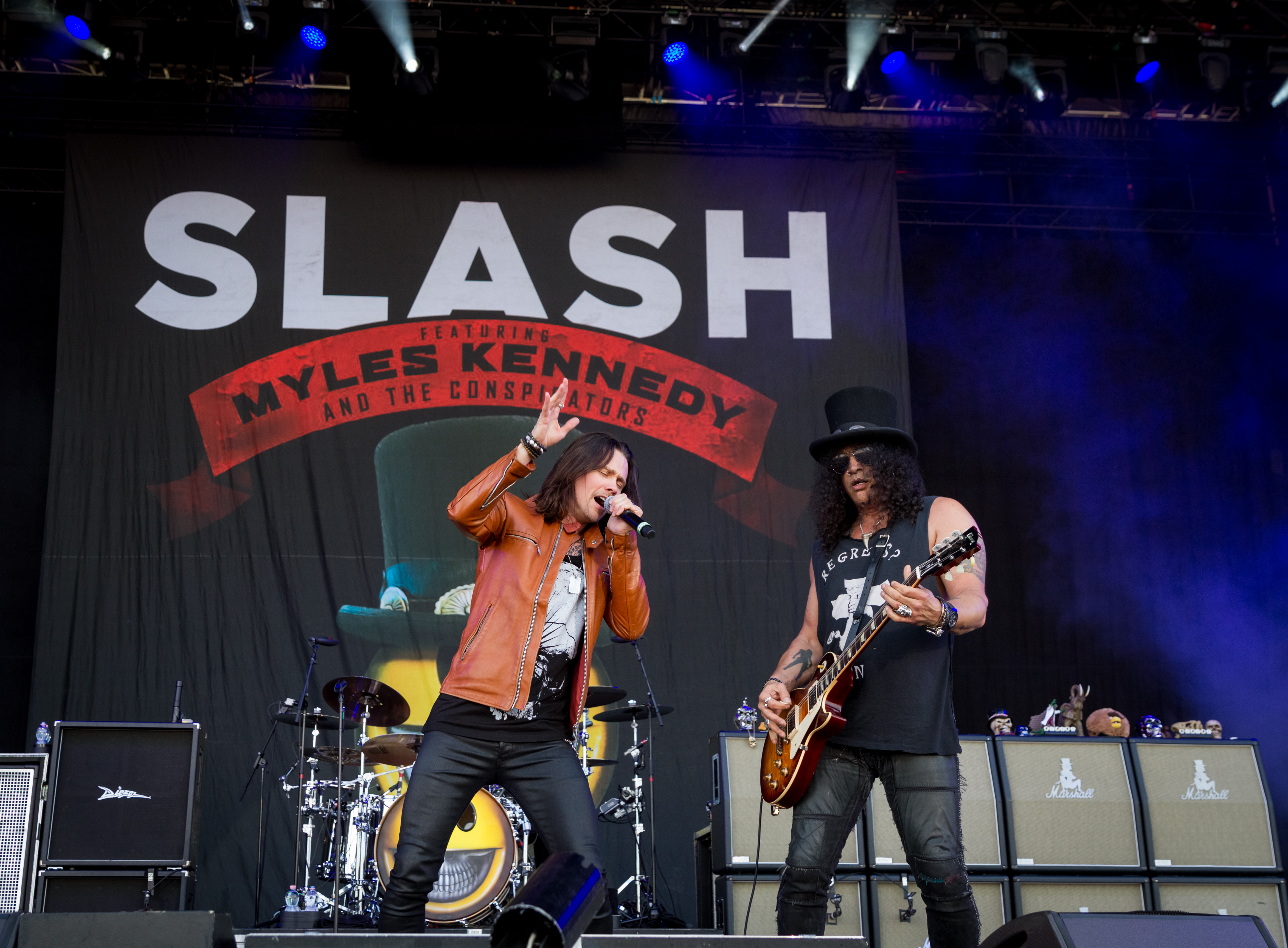 Slash feat Myles Kennedy & The Conspirators - Rock am Ring 2015